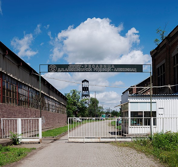 Aleksinac Mines, entrance, 1883.